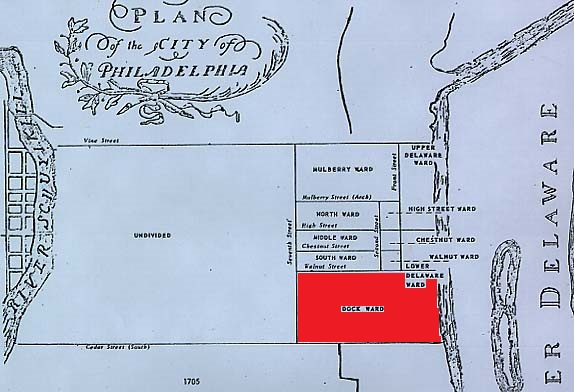 Original Division into 10 Wards, showing wards from 1705-1785